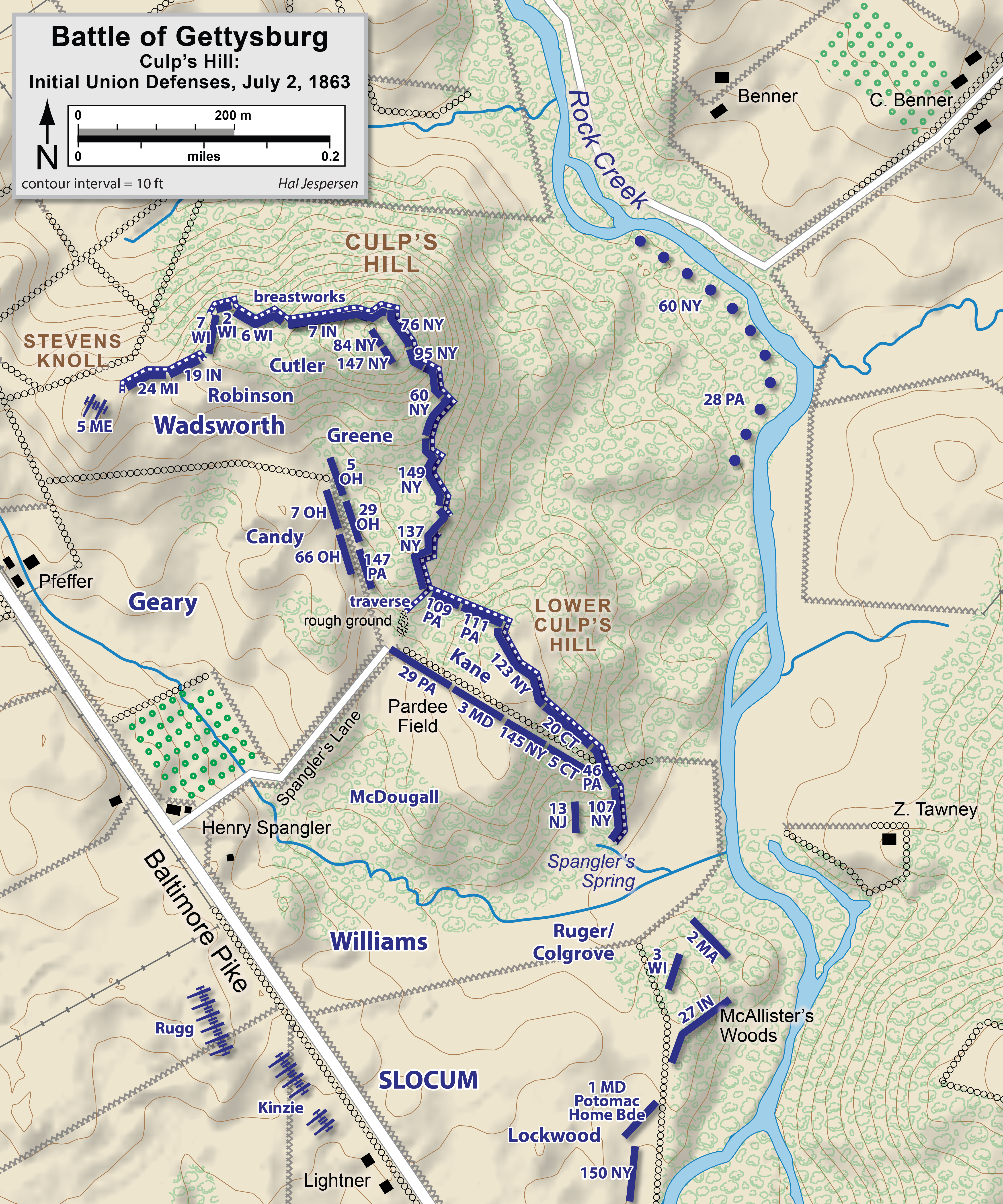 (Map of actions in the Battle of Gettysburg, second day, Culp's Hill, initial defenses. Drawn by Hal Jespersen in Macromedia Freehand. Graphic source file is available at New version improves accuracy of unit positions and graphic style that matches others in the Gettysburg series. Drawn by Hal Jespersen in Adobe Illustrator CS5. )